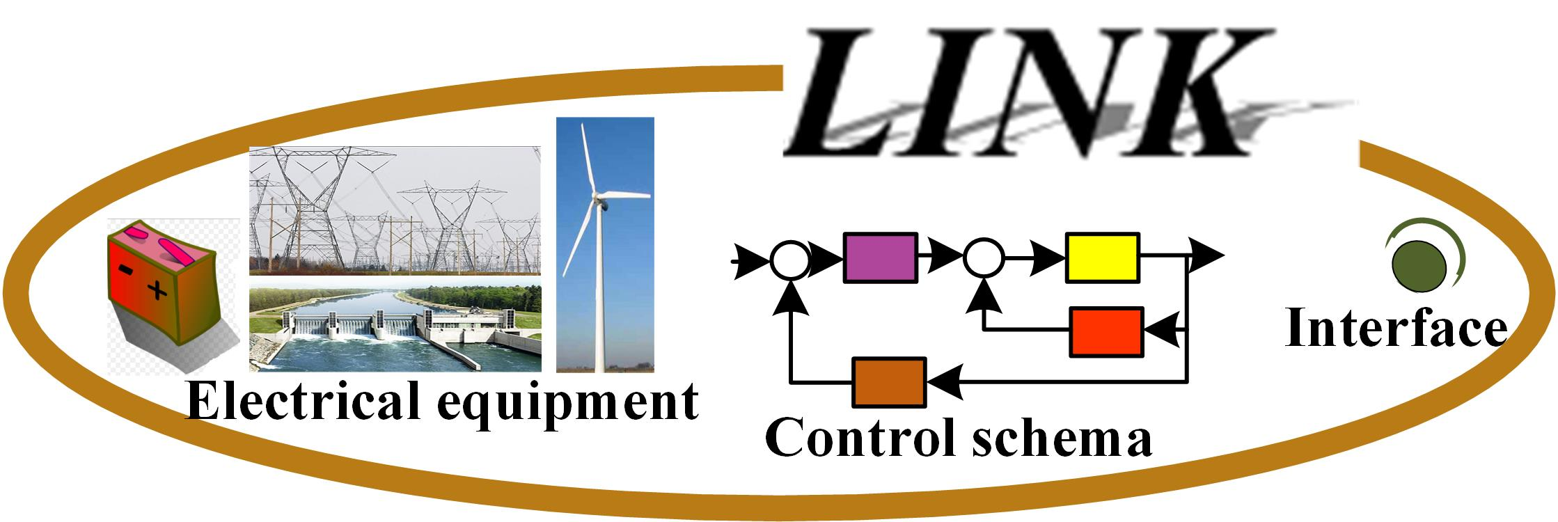 Overview of the LINK-Paradigm